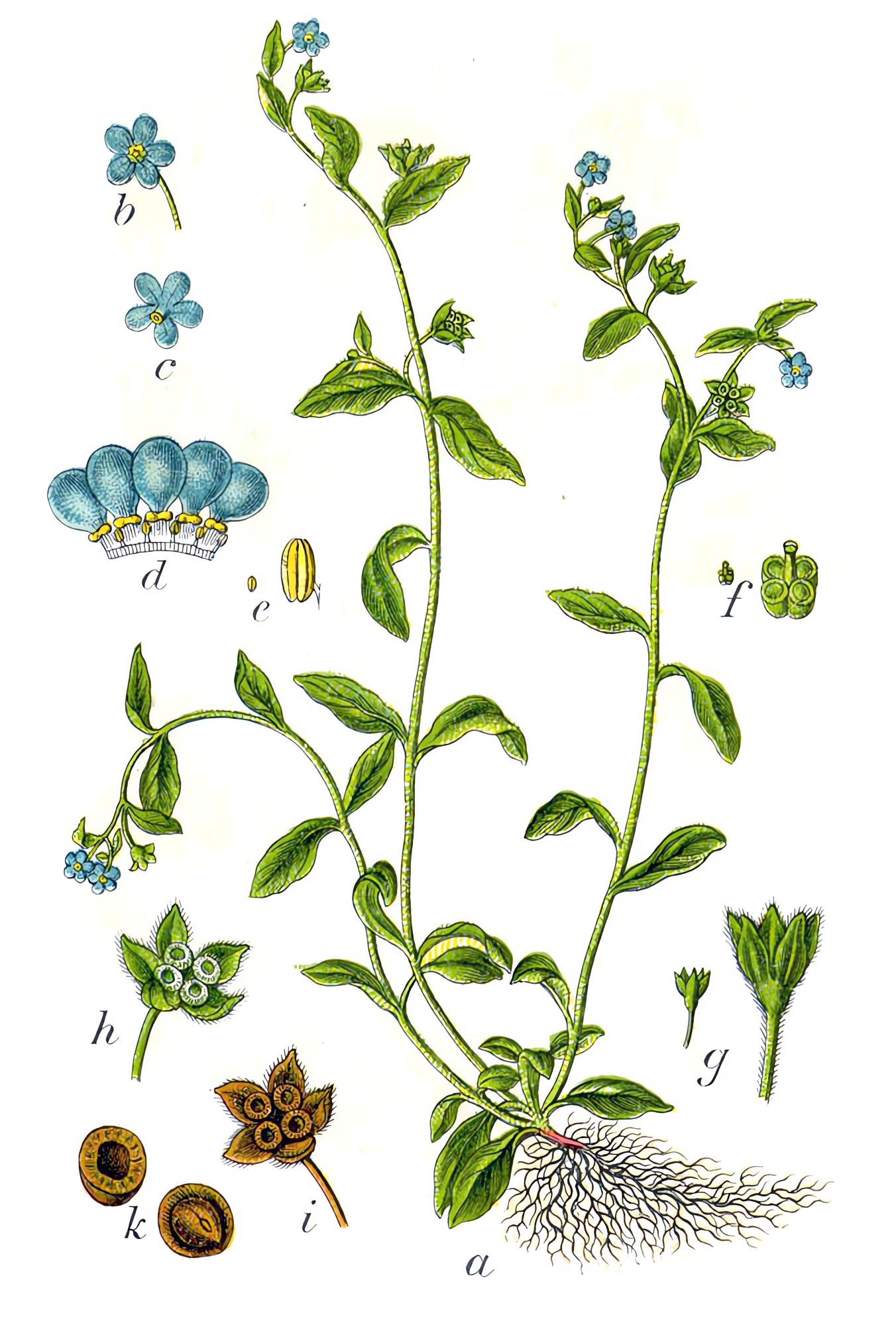 Omphalodes scorpioides (Haenke) Schrank, syn. Cynoglossum scorpioides Haenke Original Caption Skorpions-Vergissmeinnicht, Cynoglossum scorpioides